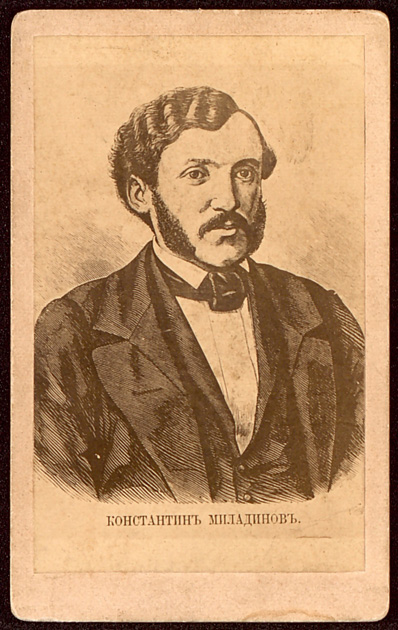 A portrait of Konstantin Miladinov.